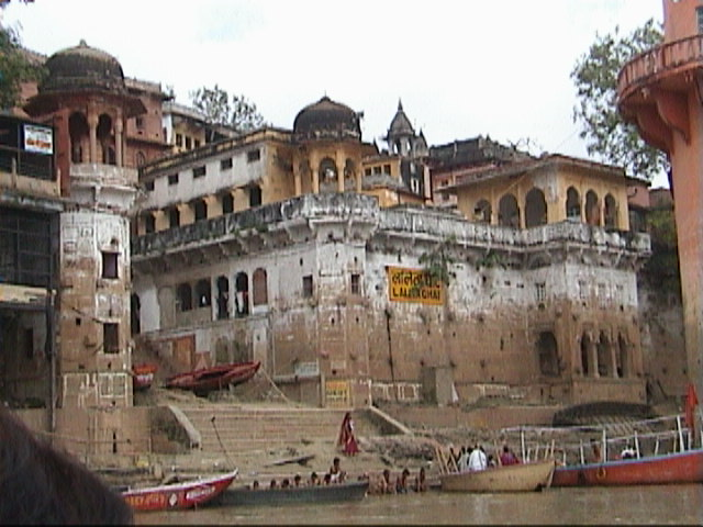 See Varanasi Development Cooperation Handbook/Stories/Responsible Development - Varanasi The Varanasi Heritage Dossier Kautilya Society Play media Vrinda Dar - How we got involved in heritage protection of Varanasi